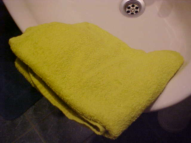 Terrycloth towel